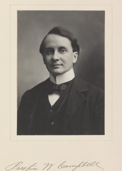 Photographic portrait of Preston W. Campbell